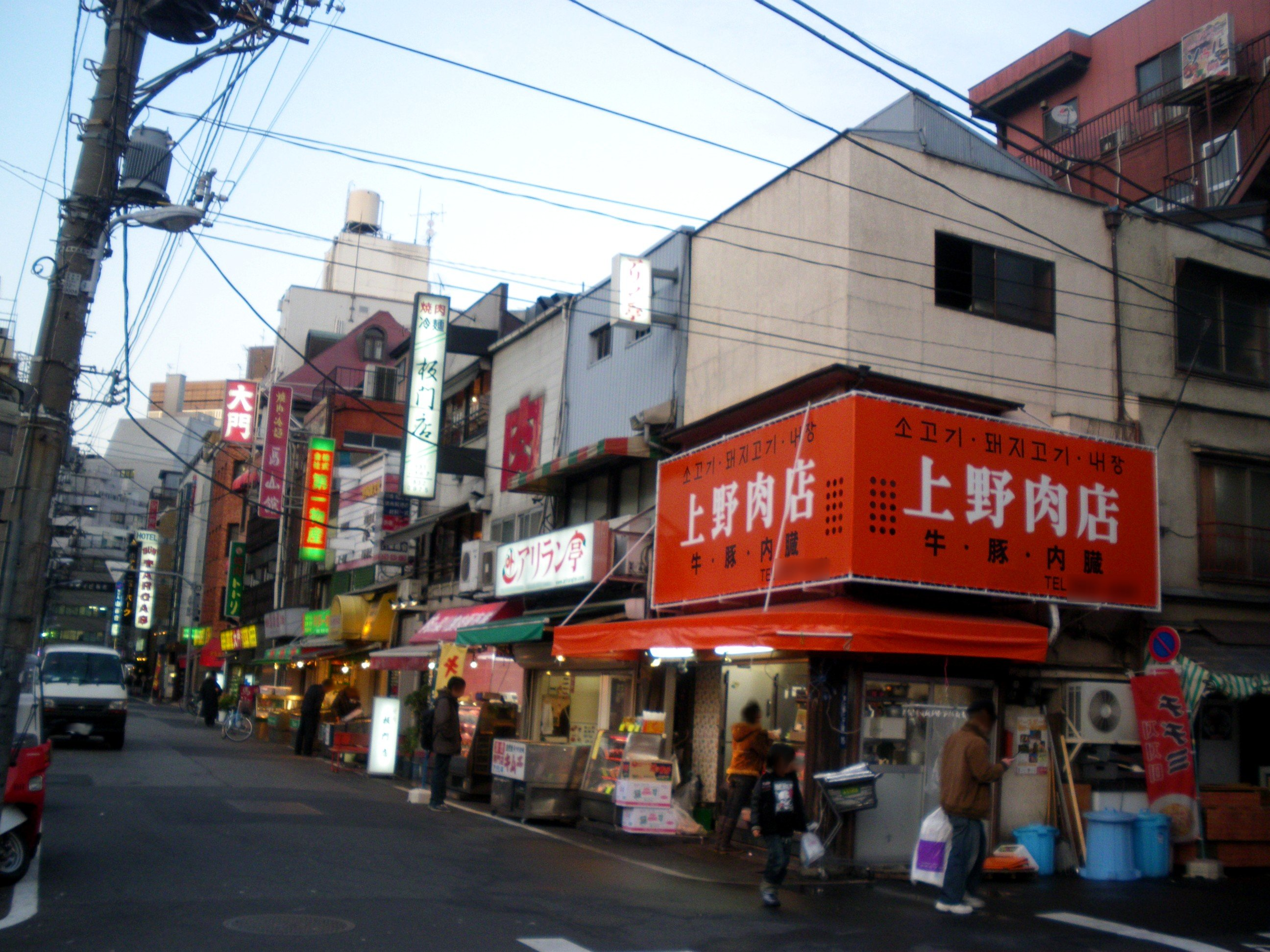 A photo of kimuchi Yokocho(a Korea town at Higashiueno,Taito-ku,Tokyo,Japan.)